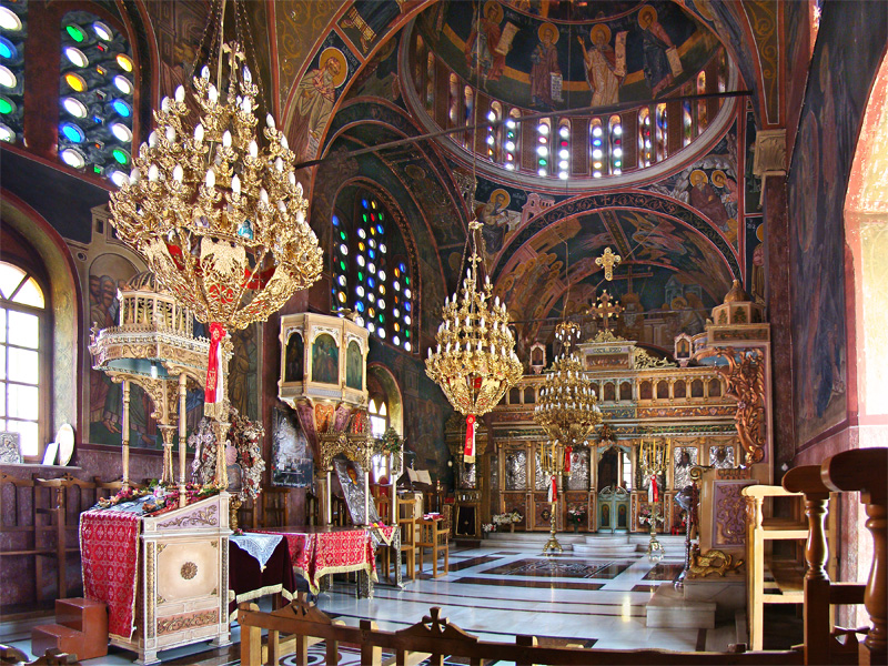 Church of Agios Panteleimonos, Siana, Rhodes, Greece.